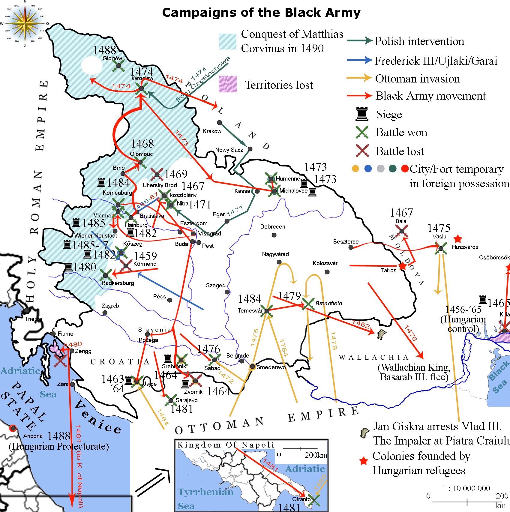 Map showing the direction of attacks in/of Hungary and in/of the surrounding countries in the middle of 15th century concentrating on the Black Army of Hungary.